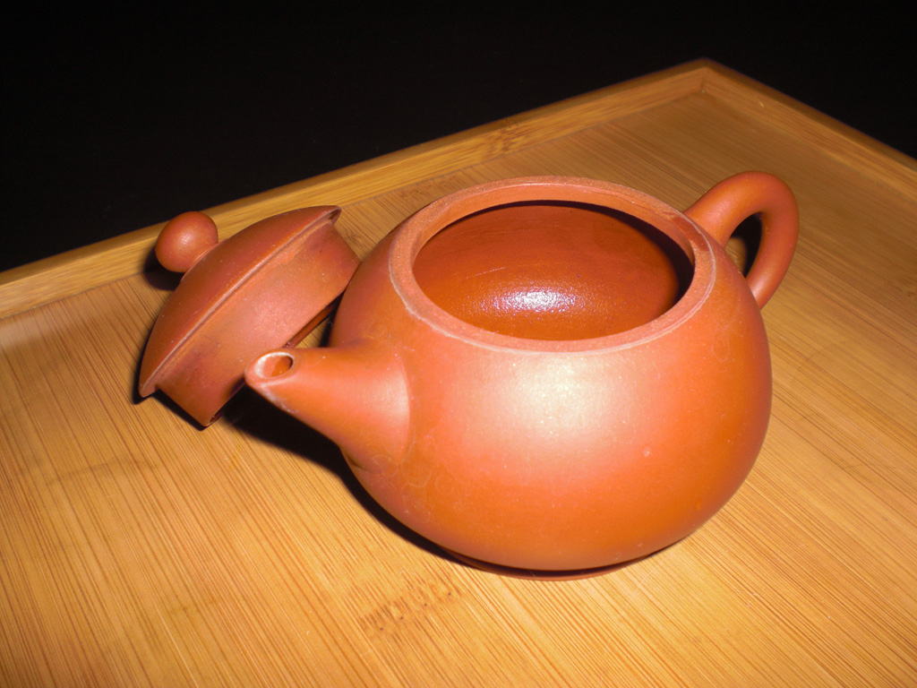 Teapot Xiying